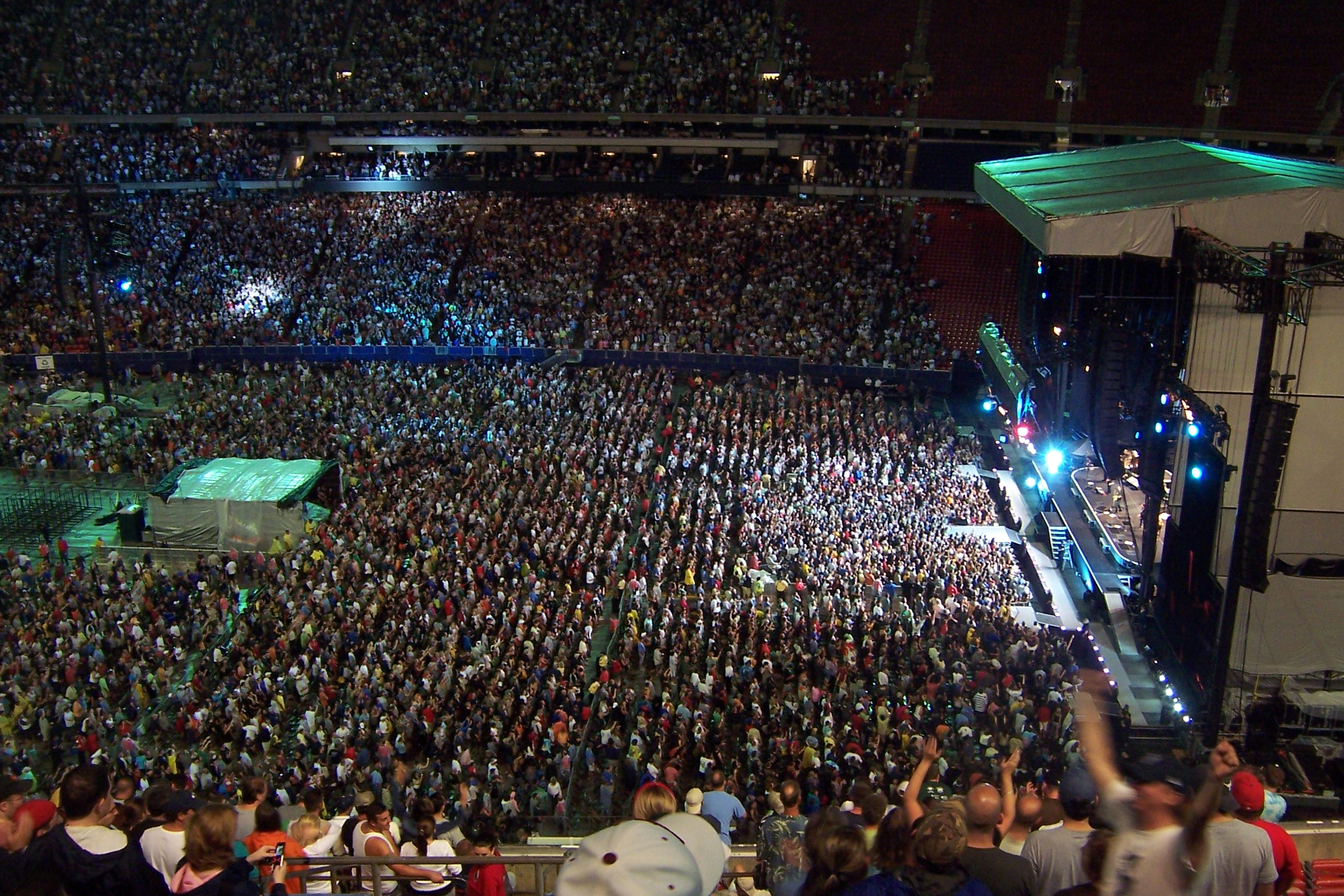 Bruce Springsteen & E Street Band, Giants Stadium, playing "Born to Run"